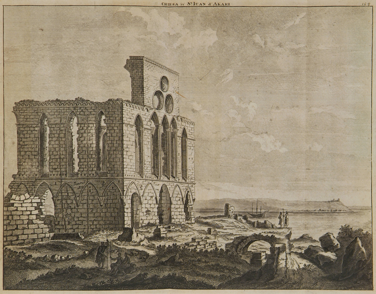 Cornelis deBruyn. Voyage au Levant, c’est-à-dire, dans les principaux endroits de l’Asie Mineure, dans les isles de Chio, Rhodes, et Chypre etc., Paris, Guillaume Cavelier, 1714.